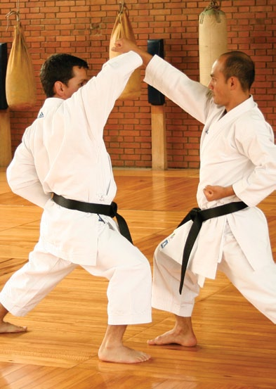 kumite